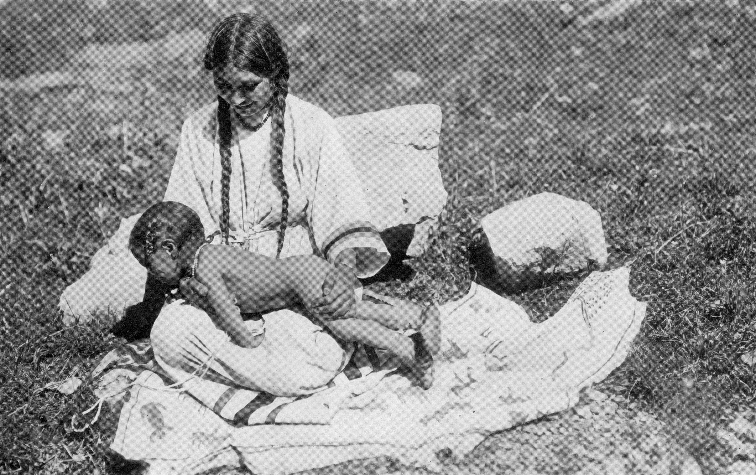 The Indian race, in general, has offered resistance to the American "melting pot," but Indian metal, after proper contact with civilized customs and industries, has gone into the making of many examples of splendid citizenship.